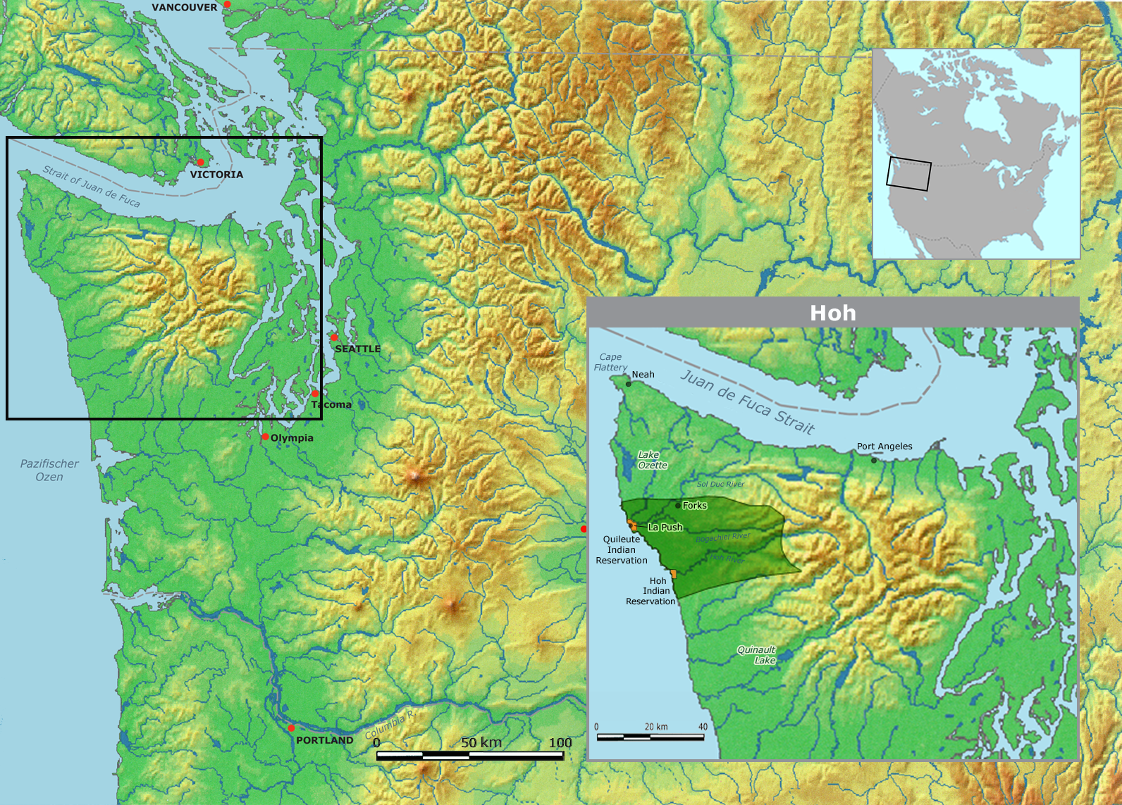 Map of Hoh Reservation on Olympic Peninsula